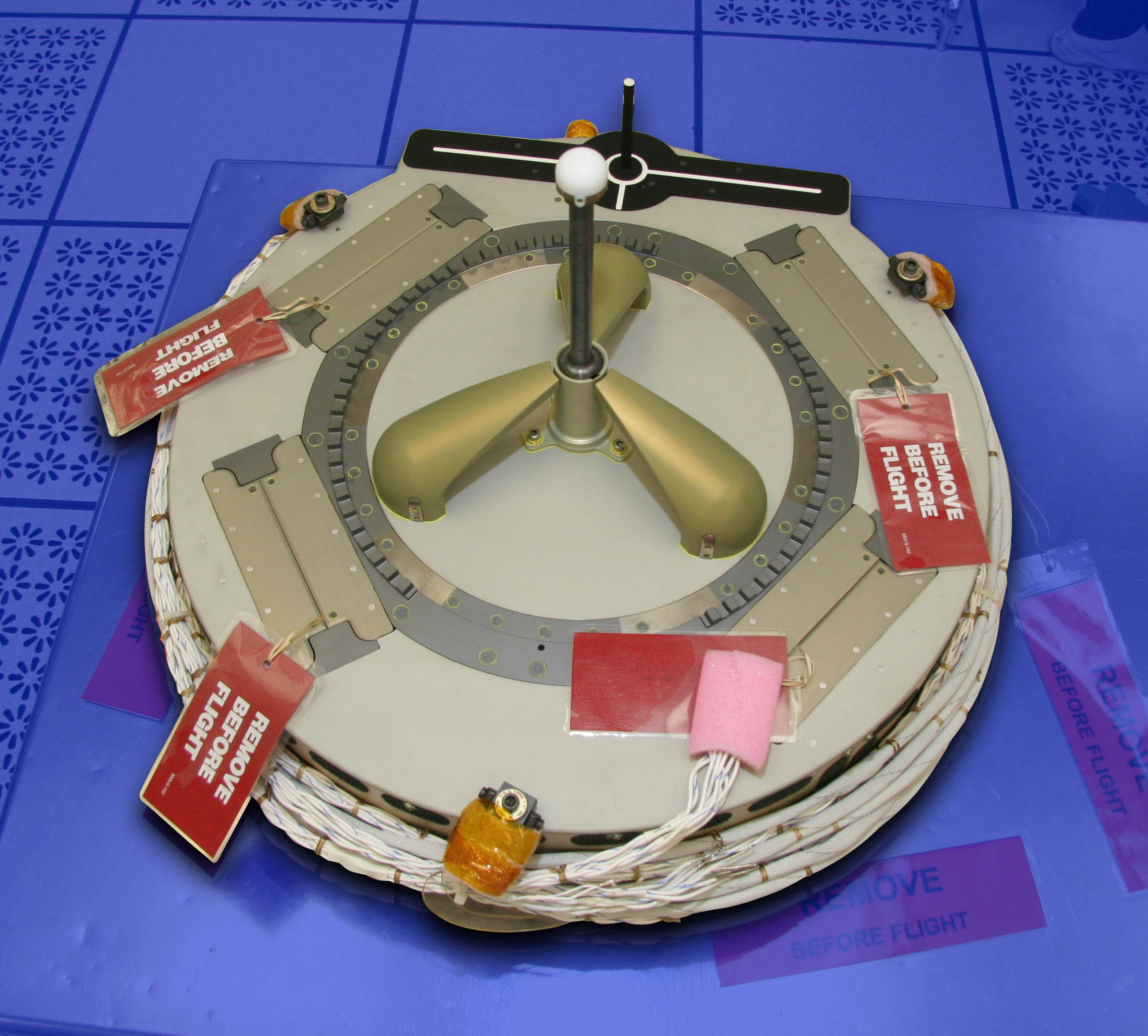 NASA Components - ISS & STS Hardware